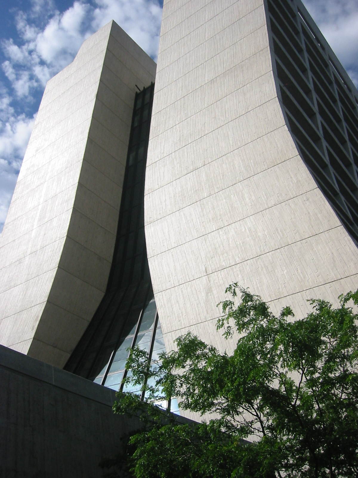 Wilson Hall at Fermilab